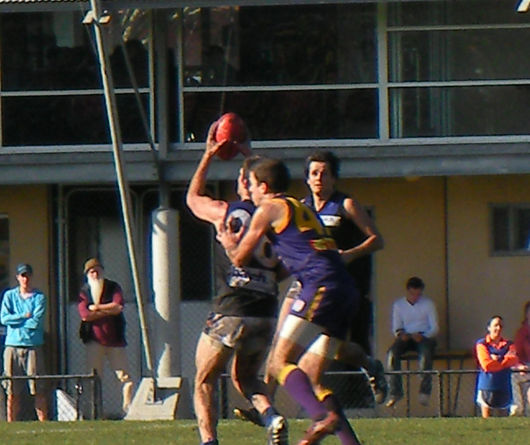 Collegians vs Melbourne University Blues seniors match played at Collegians home ground at Albert Park